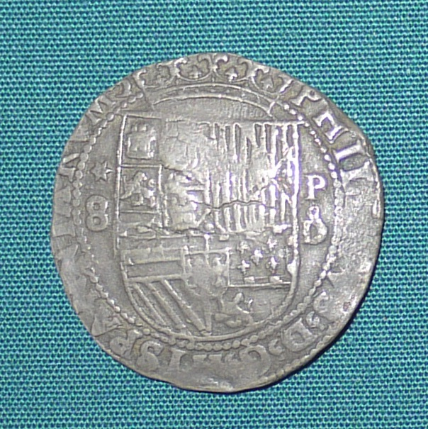 Photo of a Piece of eight chosen for A History of The World in 100 Objects